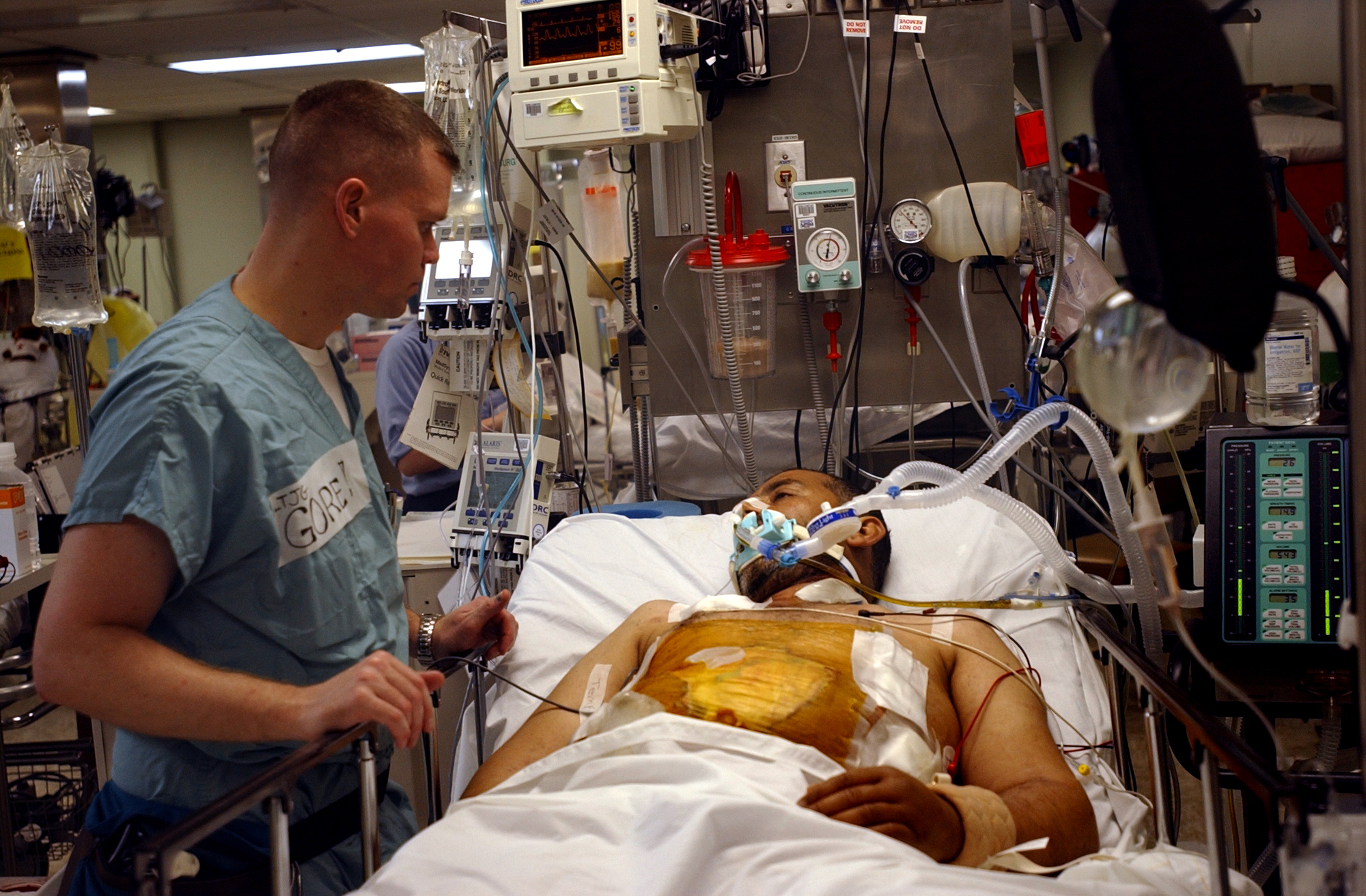 Aboard USNS Comfort (T-AH 20) Apr. 23, 2003 -- Lt. j.g. John Gore checks on a patient who is recovering from a stomach wound, in the Intensive Care Unit (ICU) aboard USNS Comfort (T-AF 20). Comfort is one of two hospital ships operated by Military Sealift Command and is designed to provide emergency, on-site care for U.S. combatant forces deployed in war or other operations. USNS Mercy (T-AH 19) and Comfort each contain 12 fully-equipped operating rooms, a 1,000 bed hospital facility, digital radiological services, a diagnostic and clinical laboratory, a pharmacy, an optometry lab, a cat scan and two oxygen producing plants. Both hospital ships are converted San Clemente-class super tankers. Comfort set sail for New York City and provided housing, laundry, food, medical and other services to volunteers and rescue personnel for nearly three weeks in the wake of the terrorist attack on the World Trade Center. Comfort was activated again in December 2002 and sailed to the Arabian Gulf to support Operation Iraqi Freedom, the multi-national coalition effort to liberate the Iraqi people, eliminate Iraq’s weapons of mass destruction, and end the regime of Saddam Hussein. U.S. Navy photo by Photographer's Mate 1st Class Shane T. McCoy. (RELEASED)